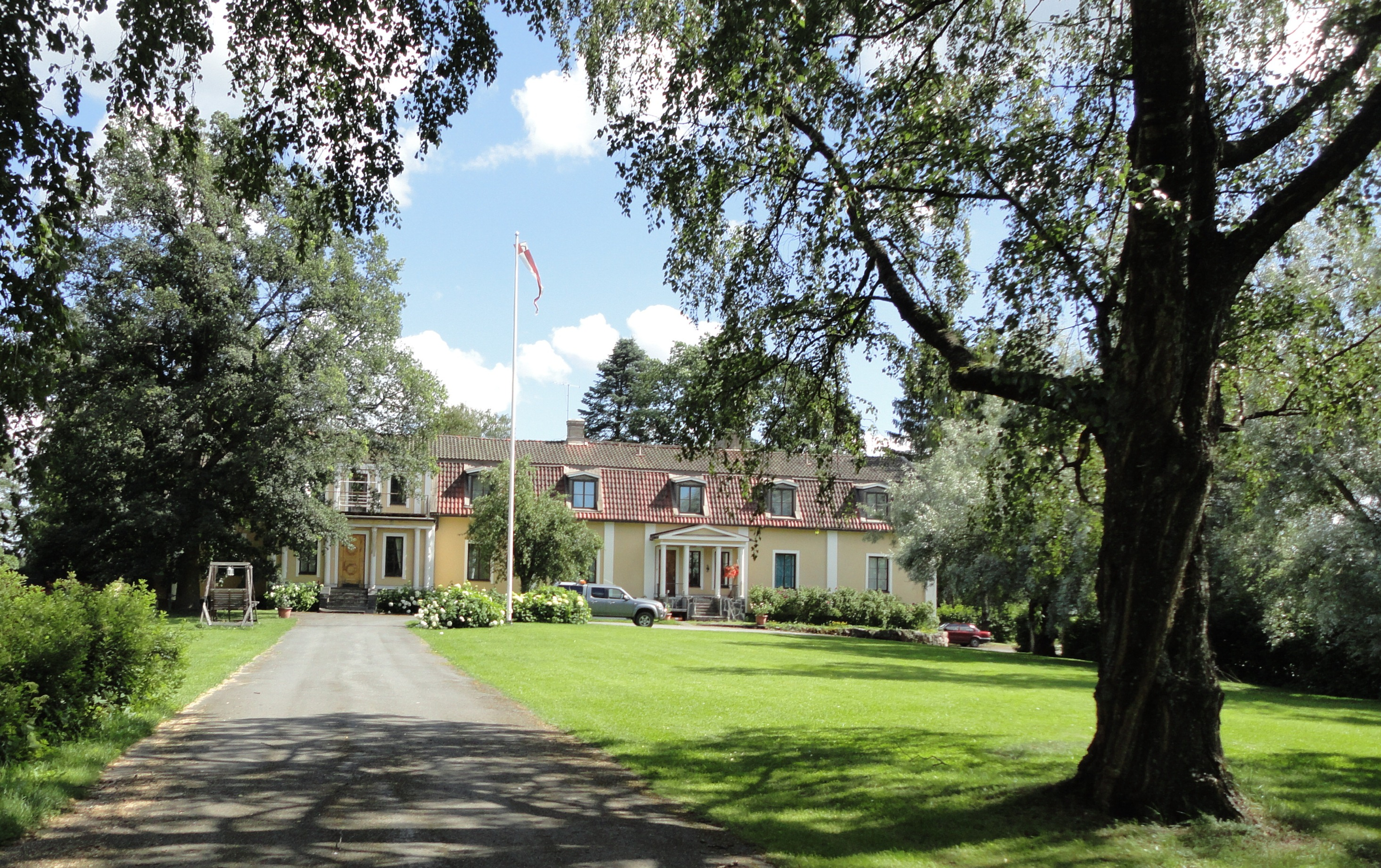 Arola mansion.